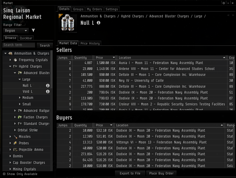 The EvE Online market as seen in-game